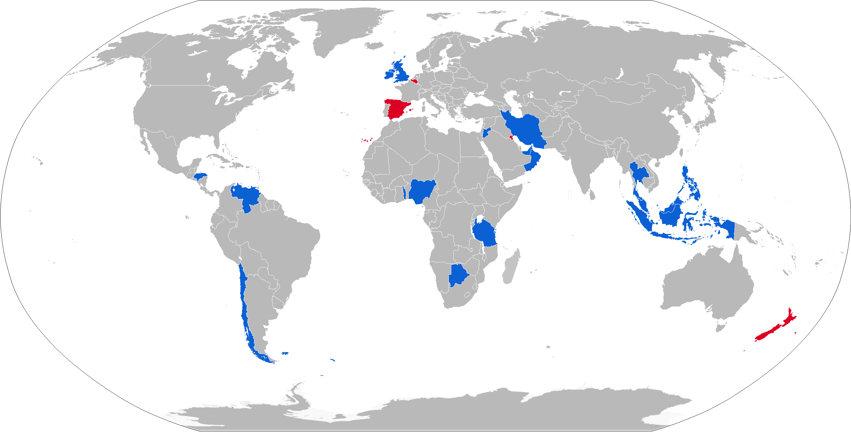 Map of FV101 operators in blue with former operators in red